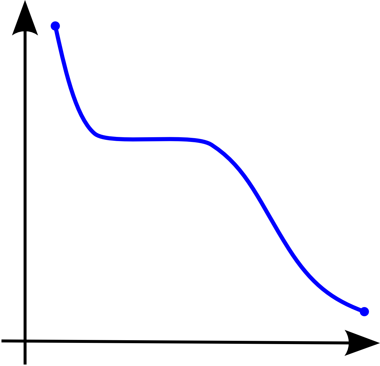 Illustration of Monotonic function